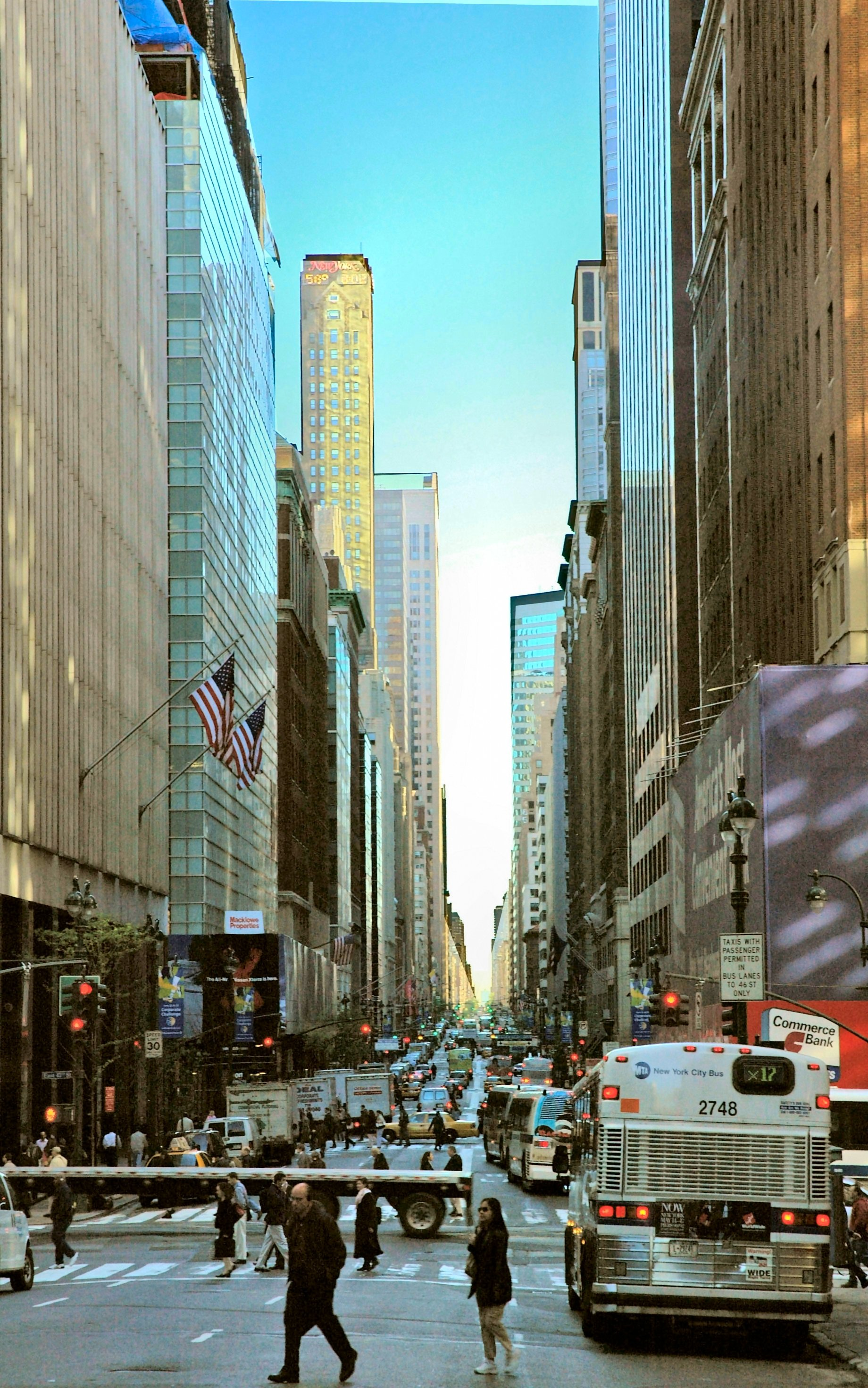 Madison Avenue, New York City, looking north from 41st Street.